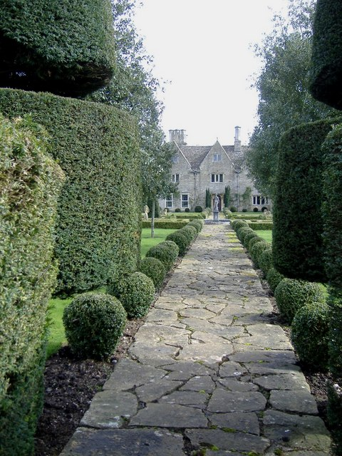 Biddestone Manor Located on Chippenham Lane.